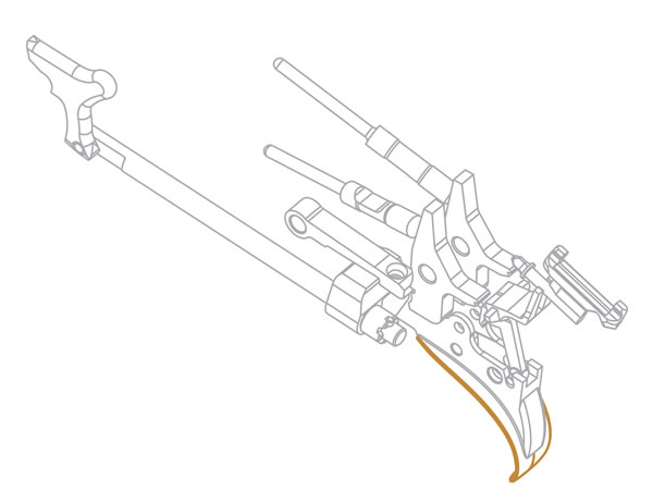 Technical drawing of Browning Cynergy mechancial trigger design